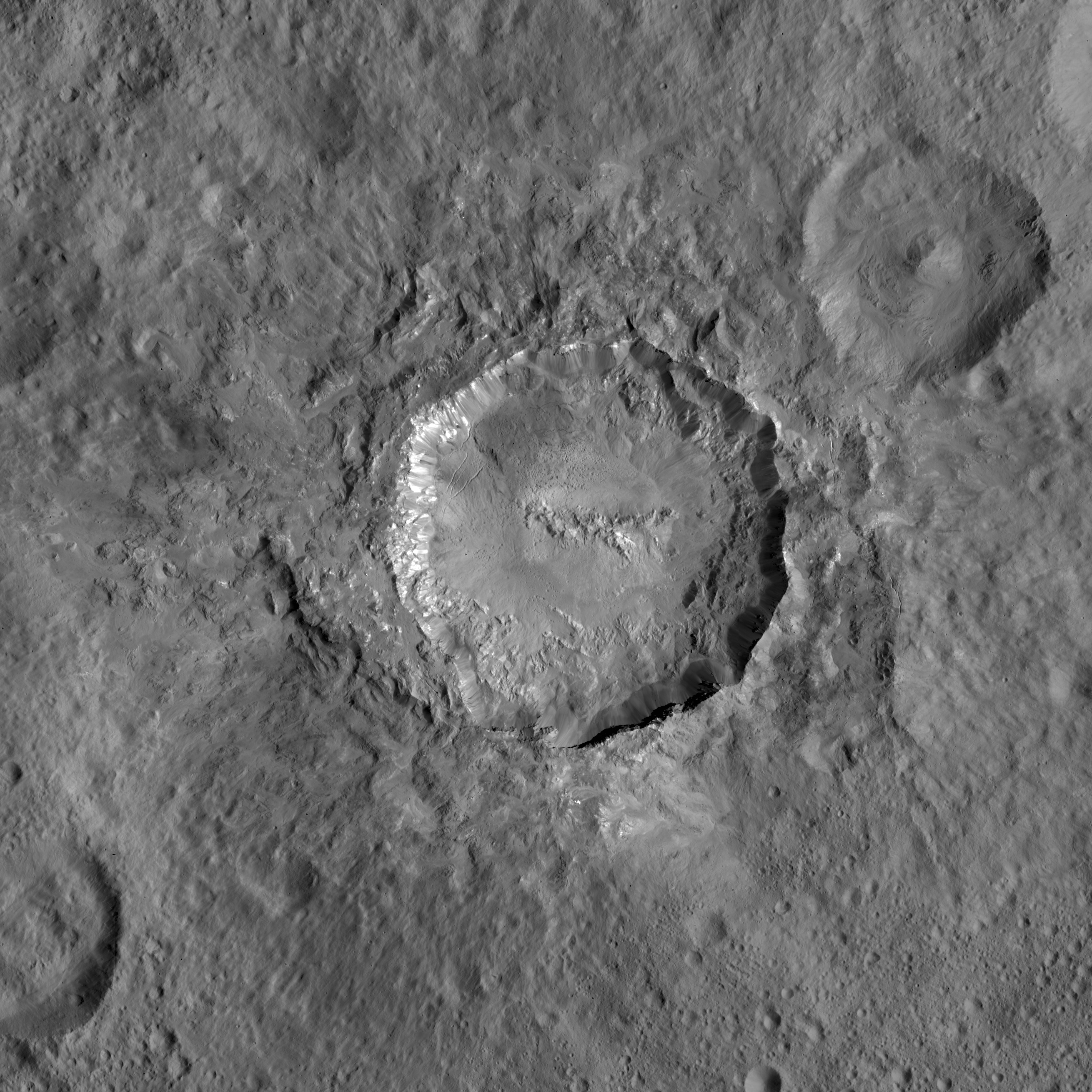 This image is a mosaic of views that NASA's Dawn spacecraft took in its low-altitude mapping orbit (LAMO), at a distance of 240 miles (385 kilometers) from the surface of Ceres. In the center is Haulani crater, which has a diameter of 21 miles (34 kilometers). Dawn's mission is managed by JPL for NASA's Science Mission Directorate in Washington. Dawn is a project of the directorate's Discovery Program, managed by NASA's Marshall Space Flight Center in Huntsville, Alabama. UCLA is responsible for overall Dawn mission science. Orbital ATK, Inc., in Dulles, Virginia, designed and built the spacecraft. The German Aerospace Center, the Max Planck Institute for Solar System Research, the Italian Space Agency and the Italian National Astrophysical Institute are international partners on the mission team. For a complete list of acknowledgments, For more information about the Dawn mission, visit The original NASA image has been cropped and converted from TIFF to JPEG format by the uploader.